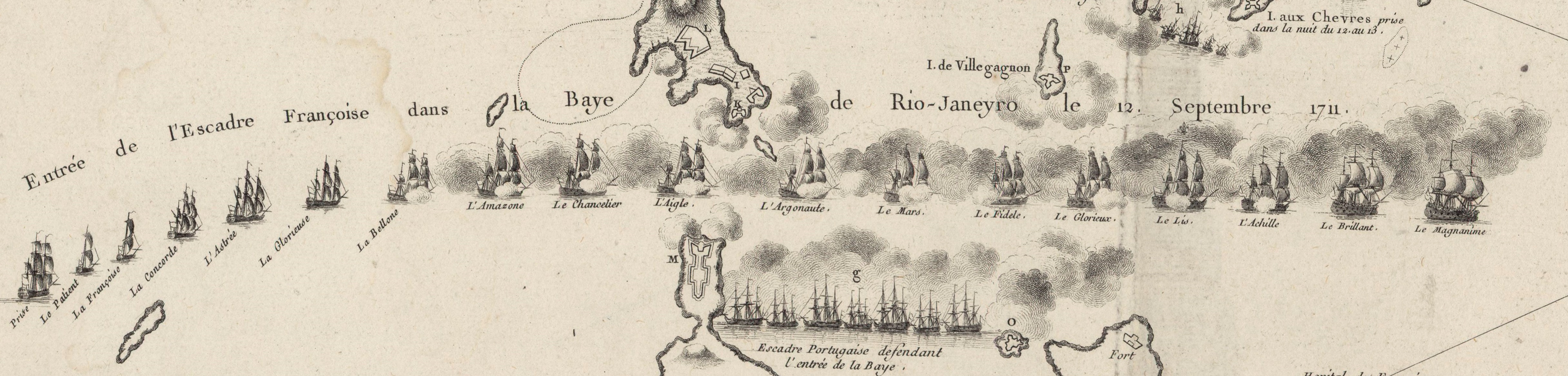 Order of battle of the René Duguay-Trouin squadron during the Rio attack in September 1711. Detail of a general plan of the attack dated 1711, but probably later because the return was only in February 1712. War of the Spanish Succession (1702 - 1714).